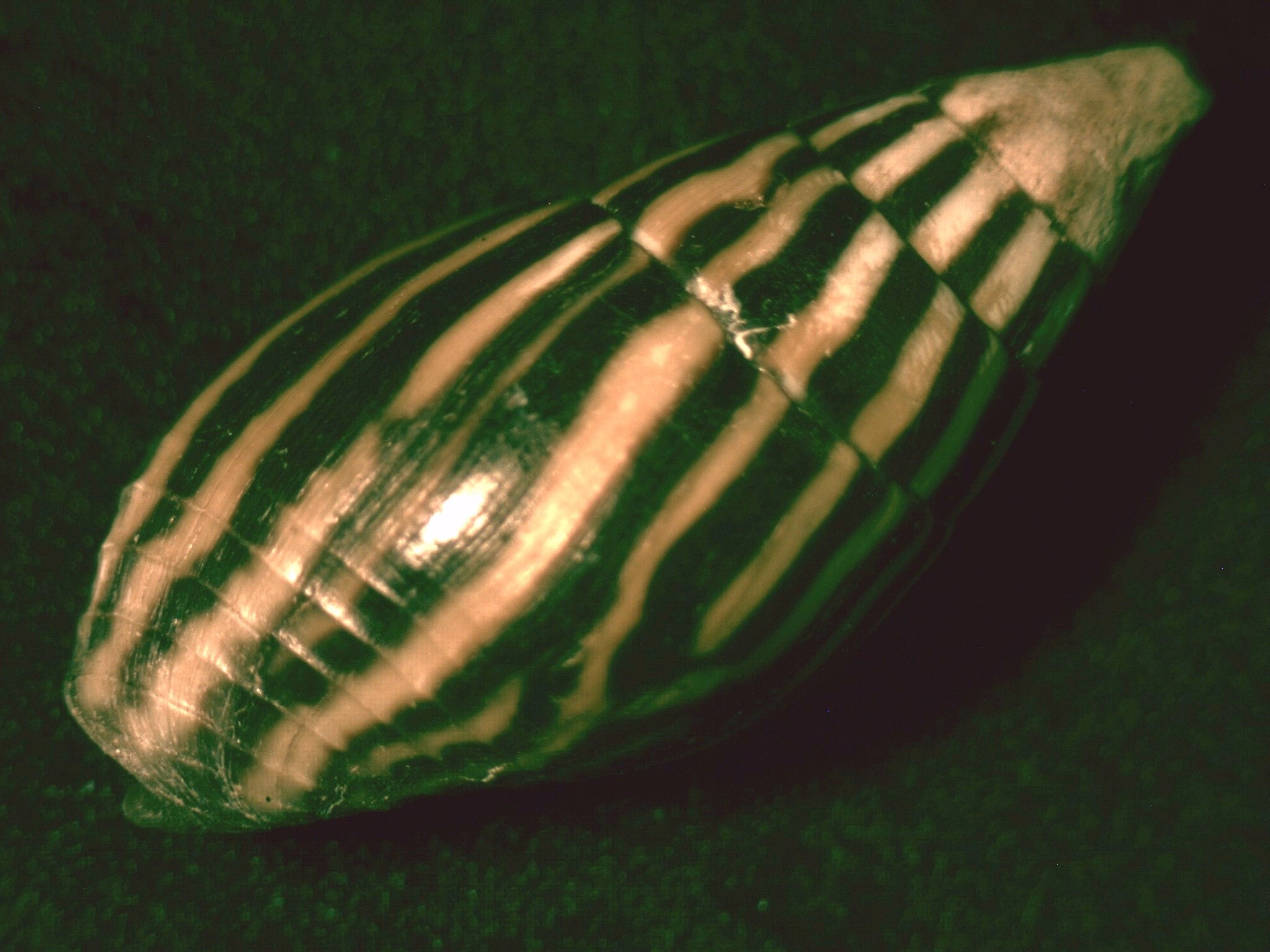 Mitra (Strigatella) paupercula (Linnaeus, 1758) (syn. Mitra zebra); a miter snail from the family Mitridae; Philippines